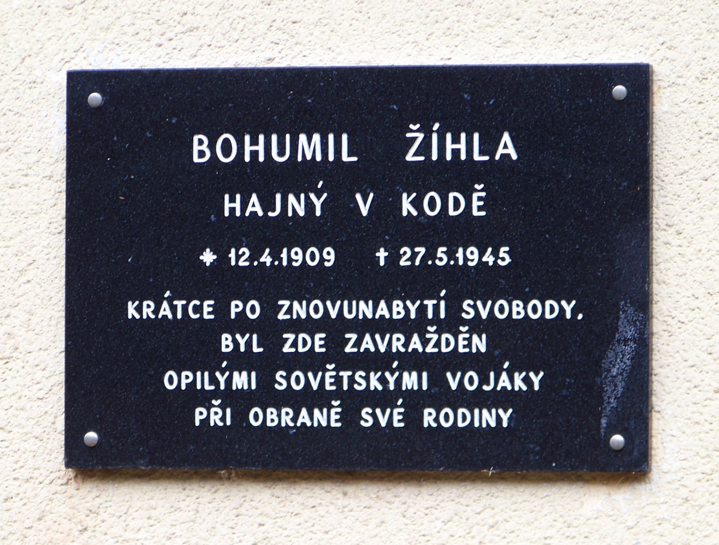 Tetín-Koda, Beroun District, Central Bohemian Region, the Czech Republic.